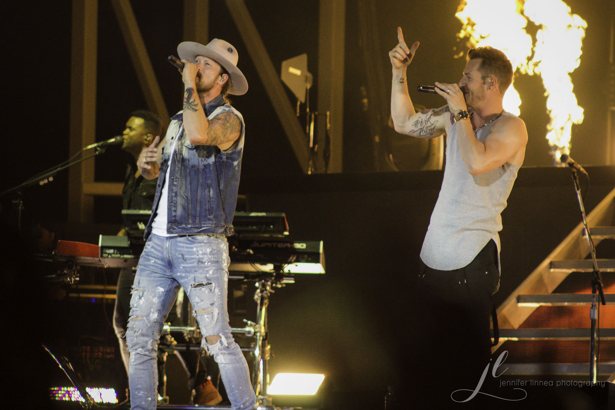 Florida Georgia Line performs at Cheyenne Frontier Days on July 20, 2018 in Cheyenne, Wyoming.